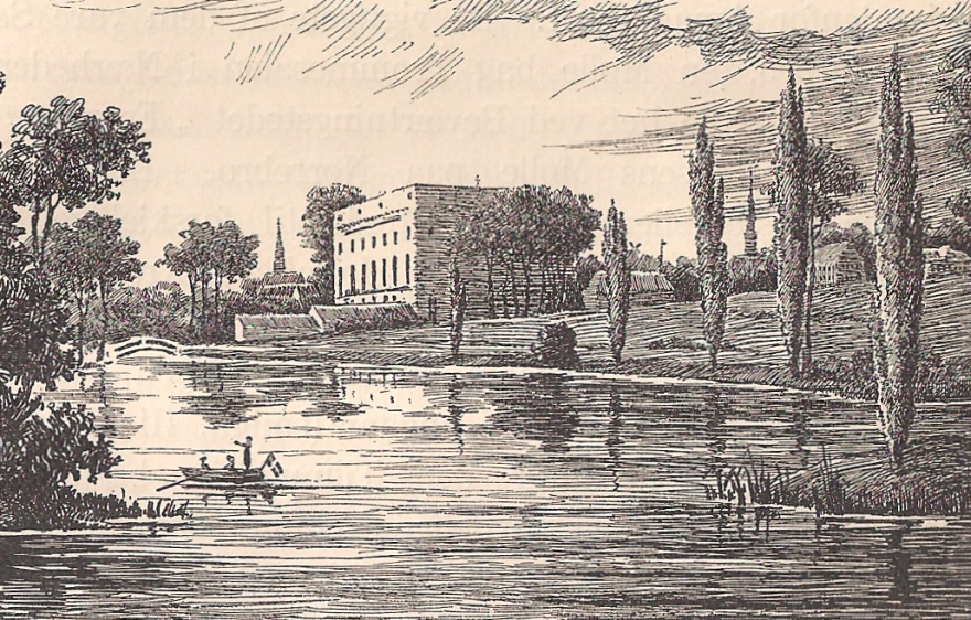 Justinenborg in Østerbro, outside Copenhagen, Denmark